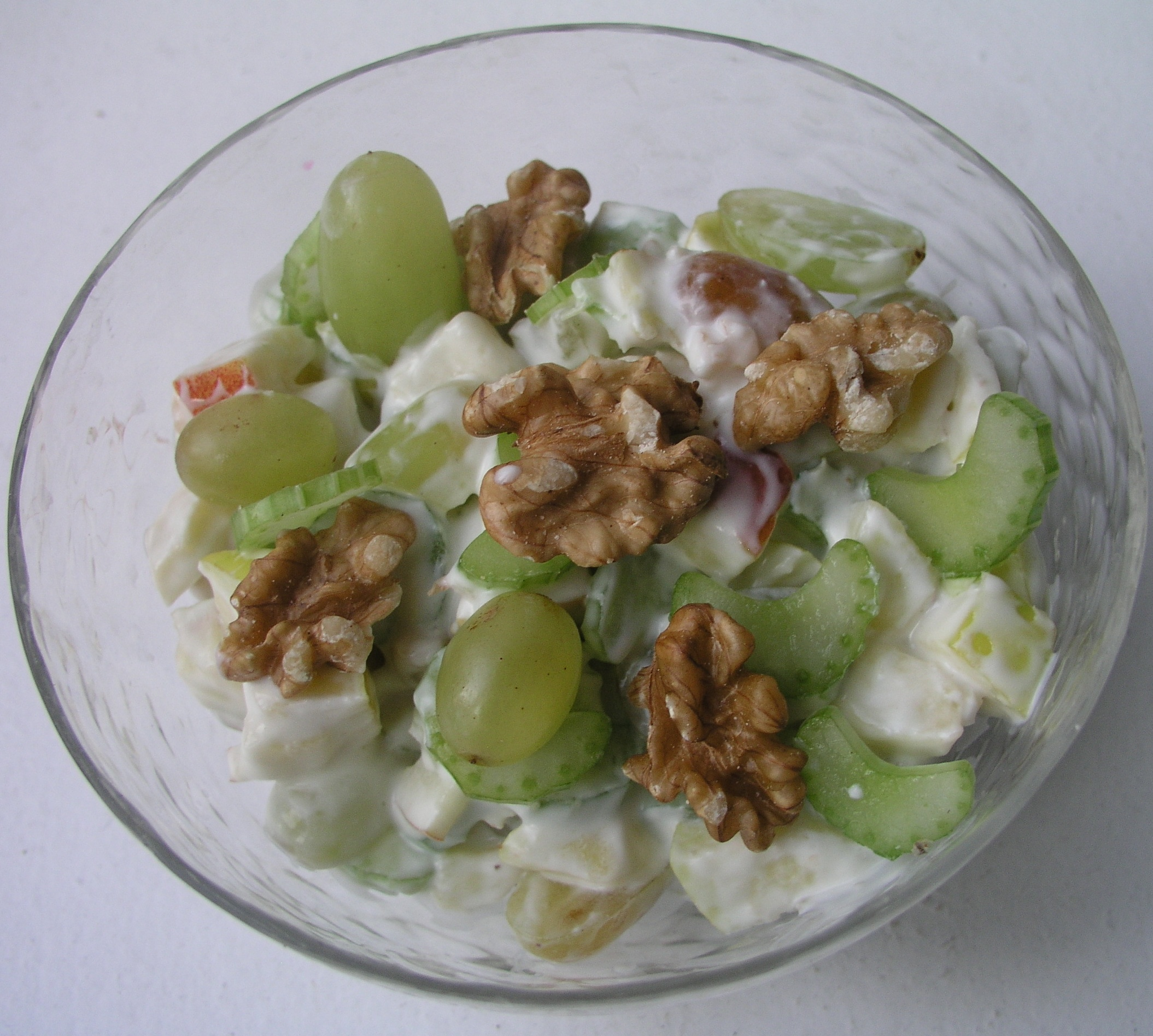 Waldorf salad with celery stalks, green grapes, walnuts, apples, mayonnaise, crème fraîche, sugar and salt